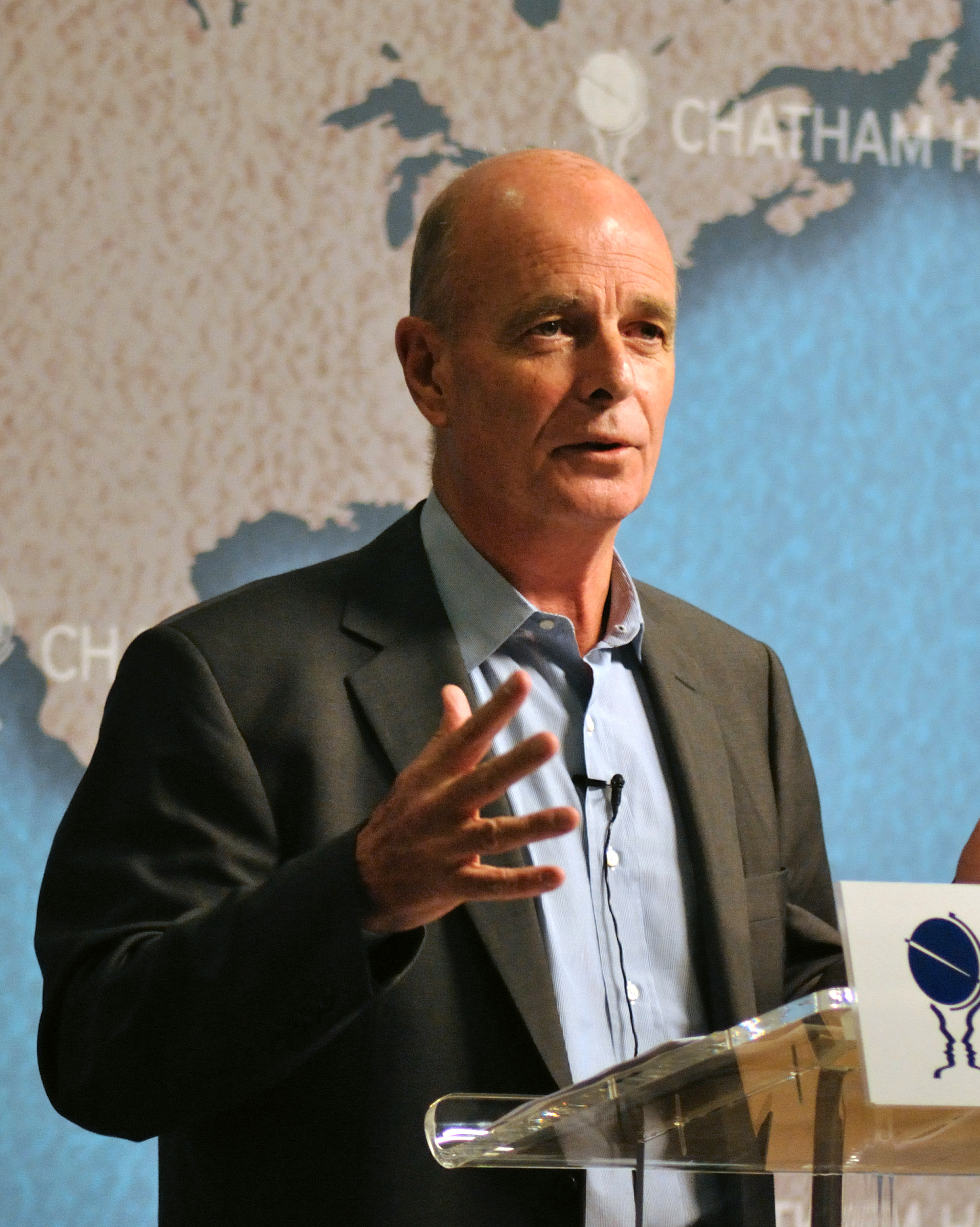 Security and Intelligence Challenges as Seen from Inside and Outside Government